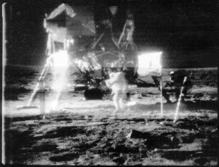 Apollo 11 moonwalk unconverted slow-scan television image, before conversion to NTSC. Photo taken at Goldstone tracking station (USA). Text from Comparison photographs of the Apollo 11 Lunar Television: GET 110:41:48 Buzz (left) and Neil (right) as Buzz gives a reading on his oxygen levels. Goldstone – slow scan TV monitor at Goldstone. Slow scan picture. Mounted Polaroid, taken at Goldstone (Photo with thanks to Bill Wood). A mounted Polaroid taken at Goldstone by a Goddard PAO representative, preserved and scanned by Goldstone Unified S-band Lead Engineer Bill Wood. Text from The Search for the original Apollo 11 Moonwalk TV tapes: A Polaroid photo of the slow scan TV monitor at the Goldstone tracking station in California. Only the personnel at the tracking stations saw the high quality TV as it was received.